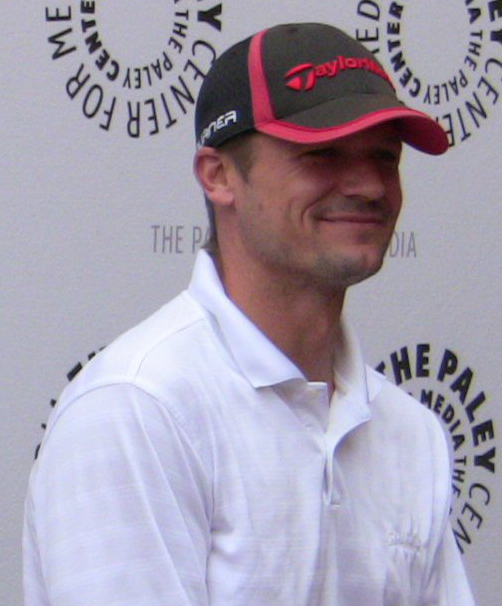 Paley Center's 6th annual celebrity golf classic, Westlake Village, Calif. - June 8, 2009